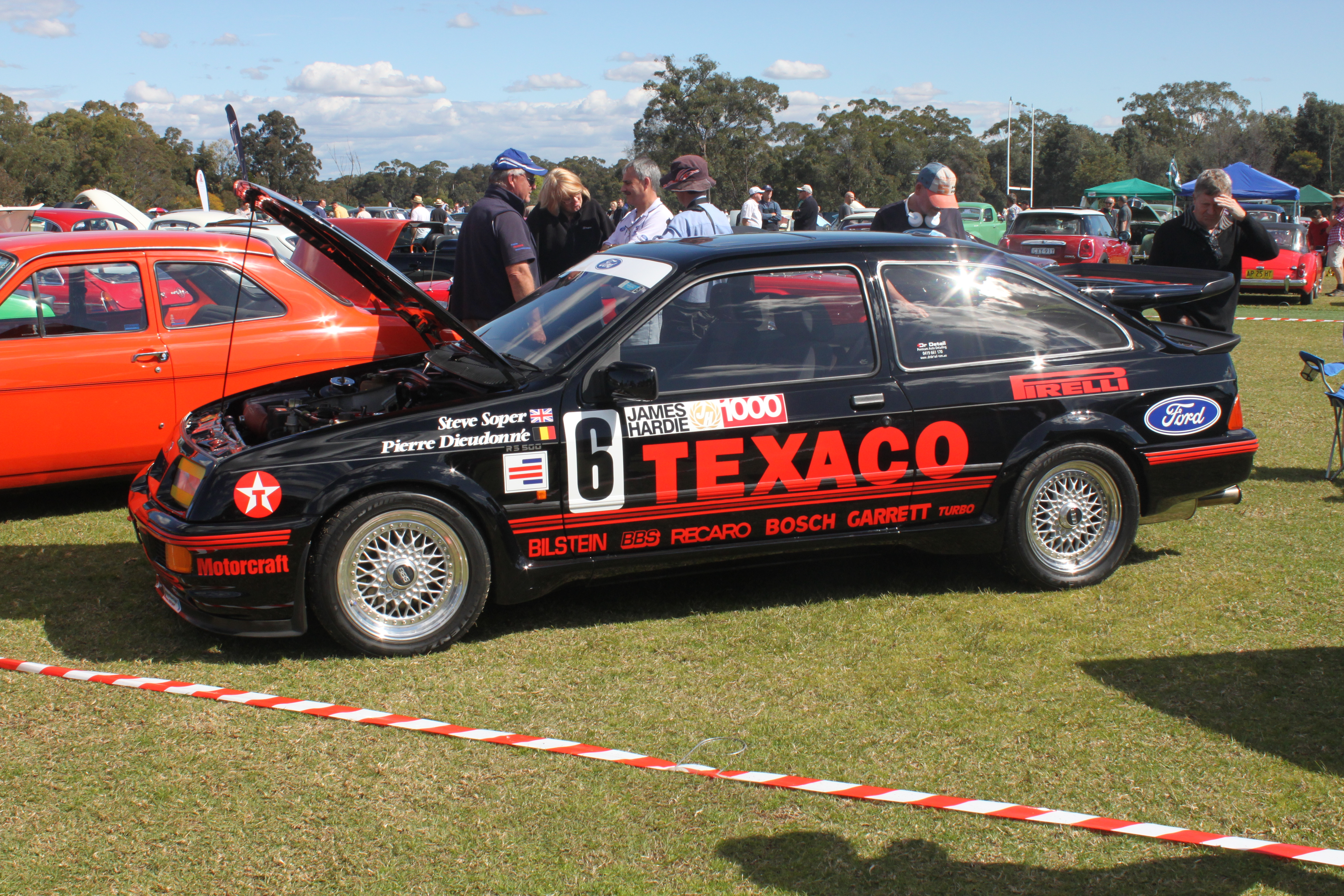 All British Day, Kings School, North Parramatta, NSW August 2015